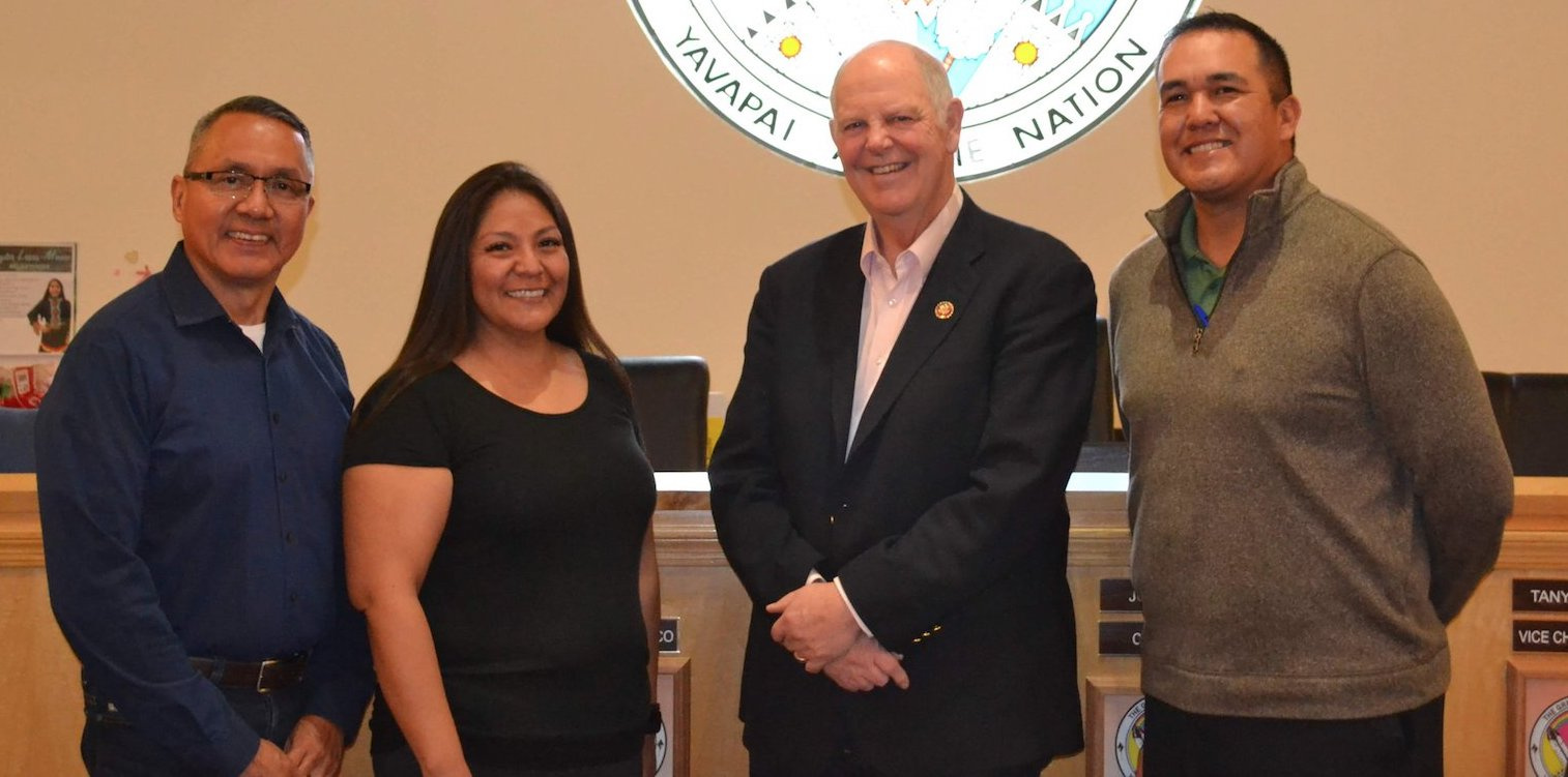 Yesterday, my #AZ01 tribal engagement staff and I were honored to meet with leadership of the Yavapai-Apache Nation to discuss their priorities for this year. Thank you to Chairman Jon Huey and Vice Chairwoman Tanya Lewis for having us.